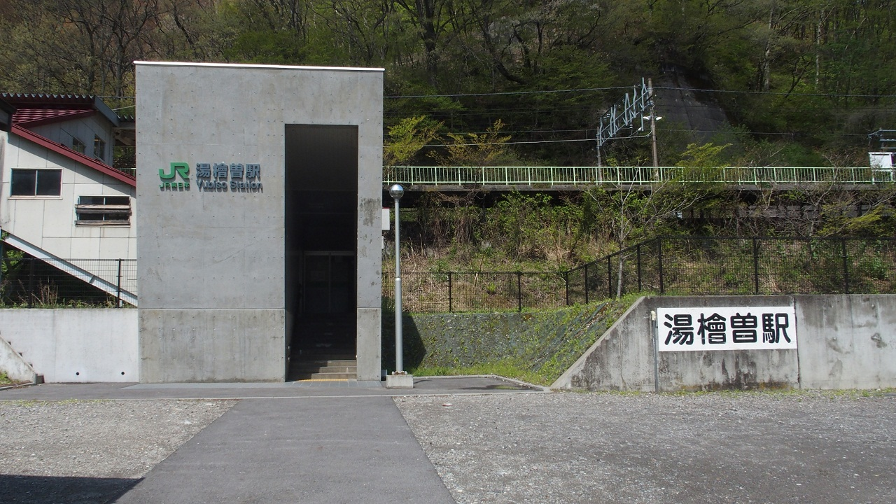 Yubiso Station